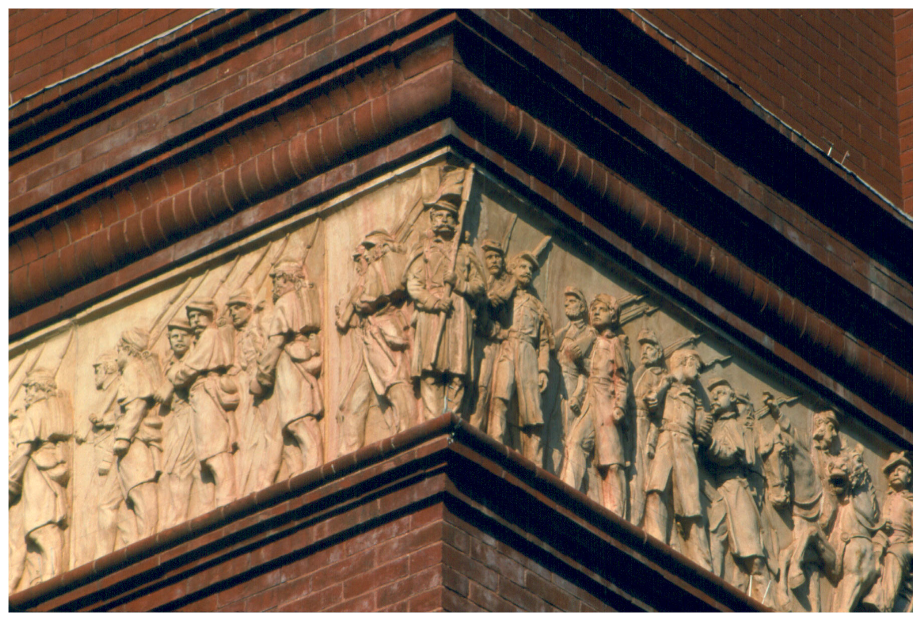 photo by Einar Einarsson Kvaran 2005 for Montgomery C. Meigs and Caspar Buberl